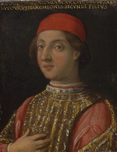 Portrait of Rodolfo Gonzaga (1452-1495)